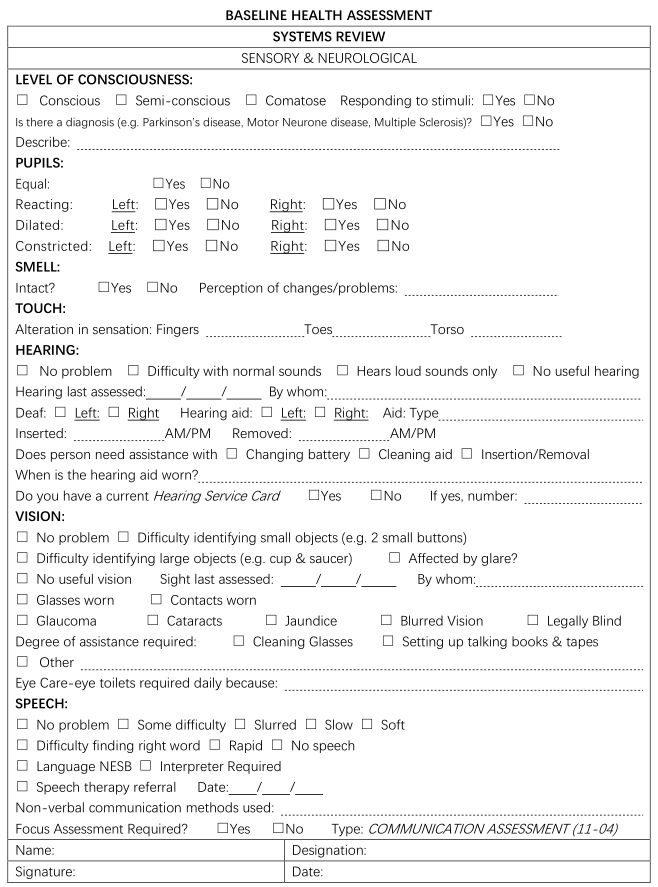 Figure 2-2. A sample nursing assessment form for an Australian residential aged care home.